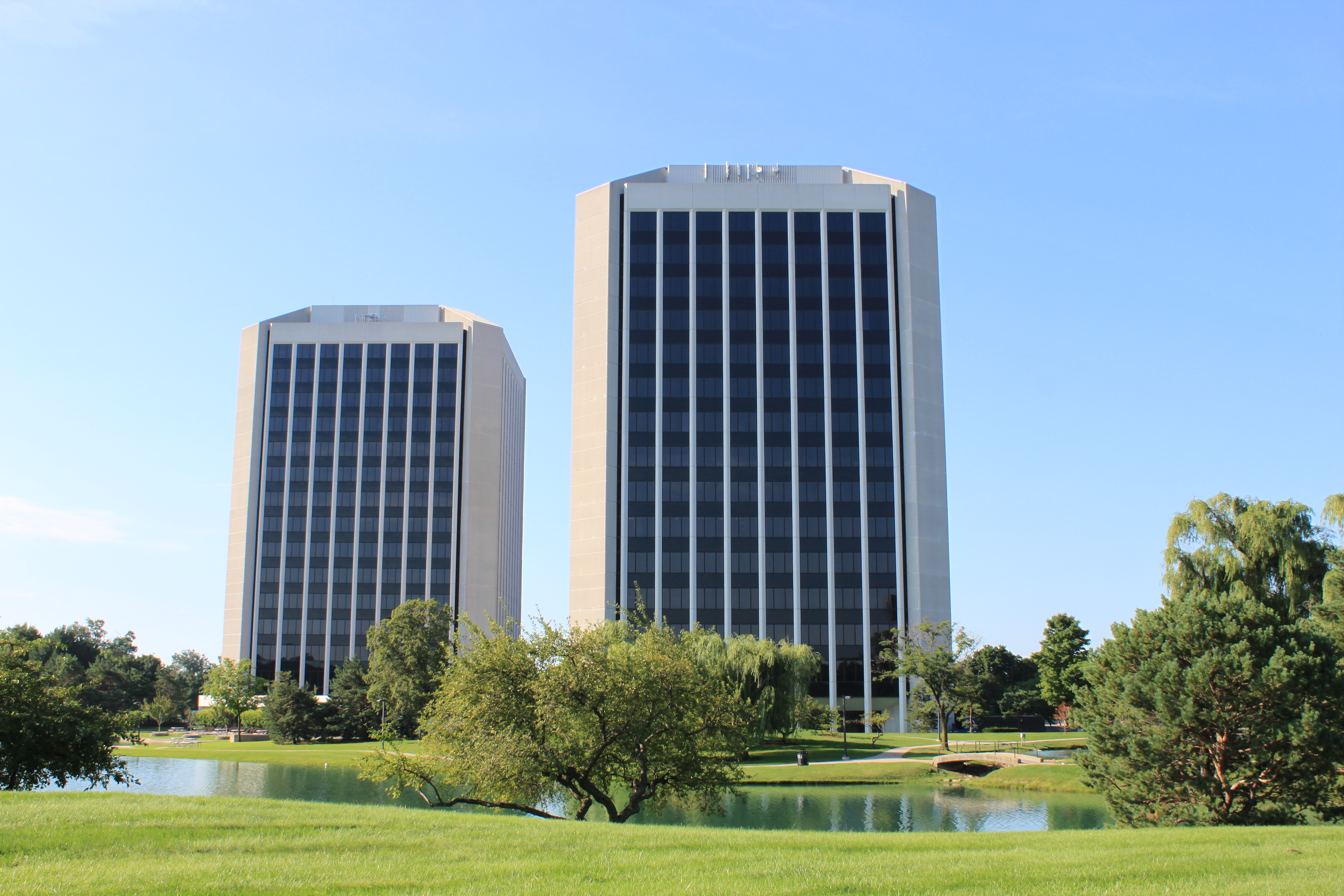 Parklane Towers, 1 & 3 Parklane Boulevard, Dearborn, Michigan. Parklane Tower East is on the left and Parklane Tower West is on the right.